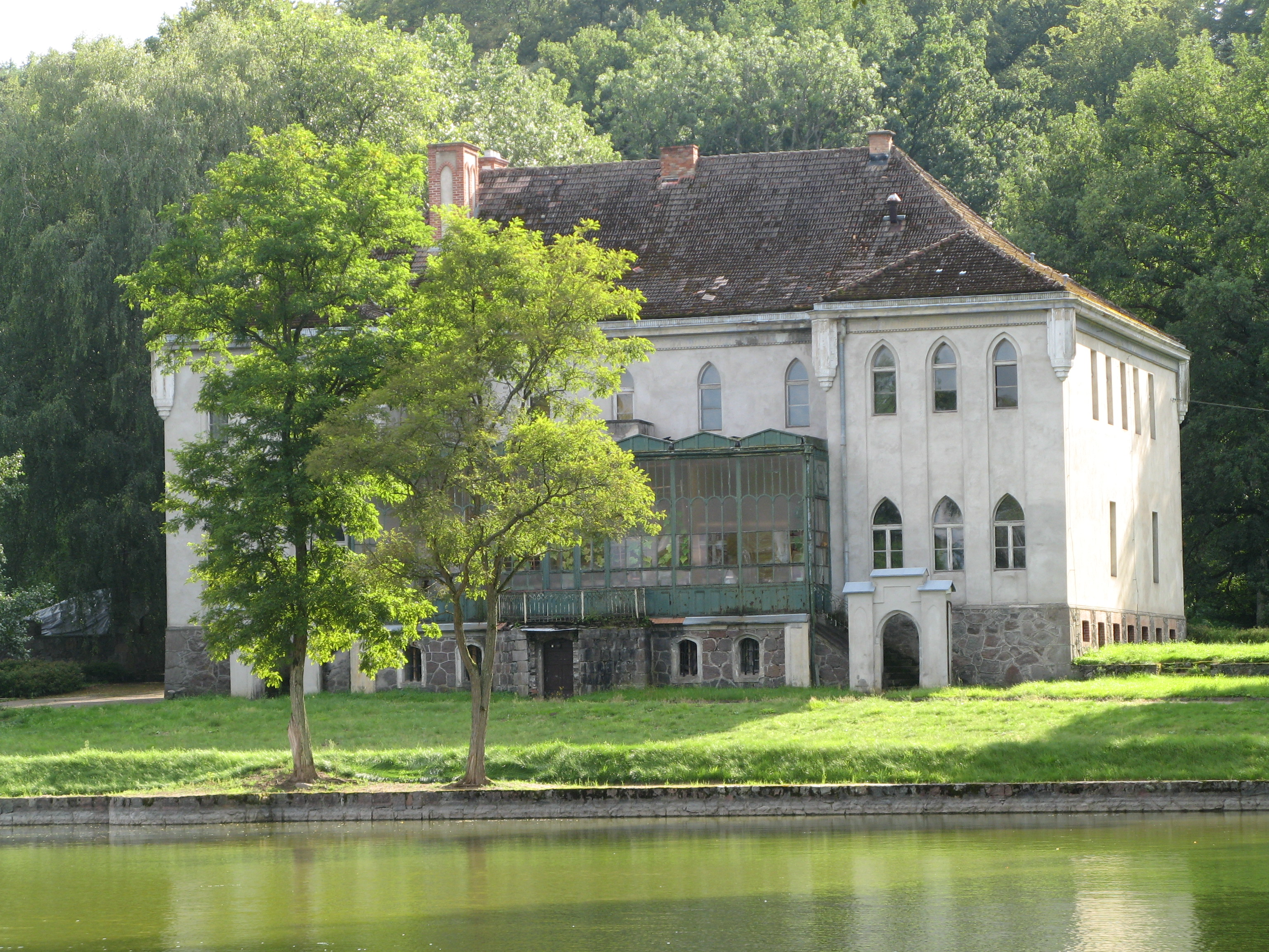 Castle in Białowąs, Poland (before 1945 german Balfanz in Pommern